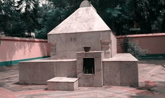 Mallik Gosh Tomb or Dargah, Nadia